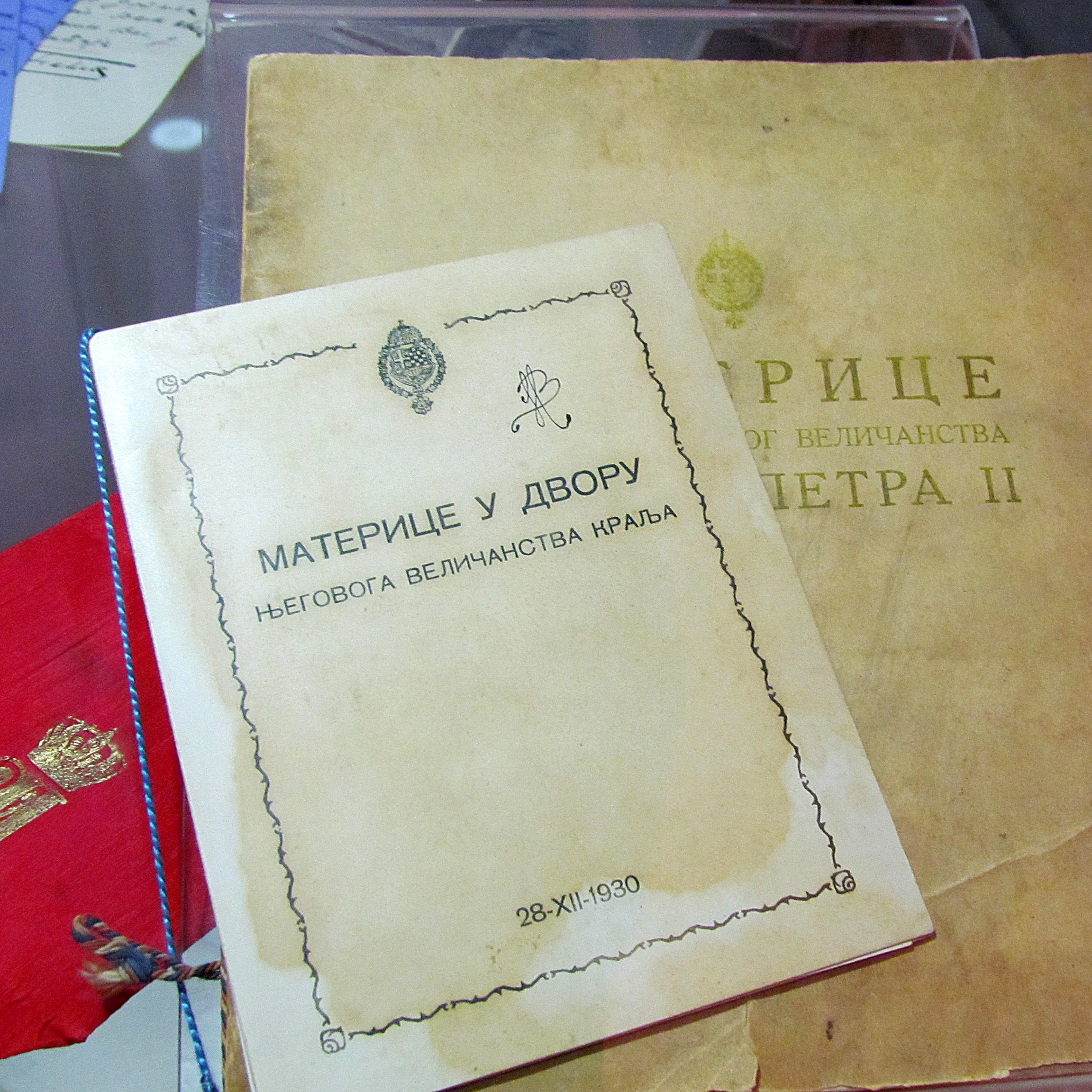 Позивница за материце Петра II Карађорђевића